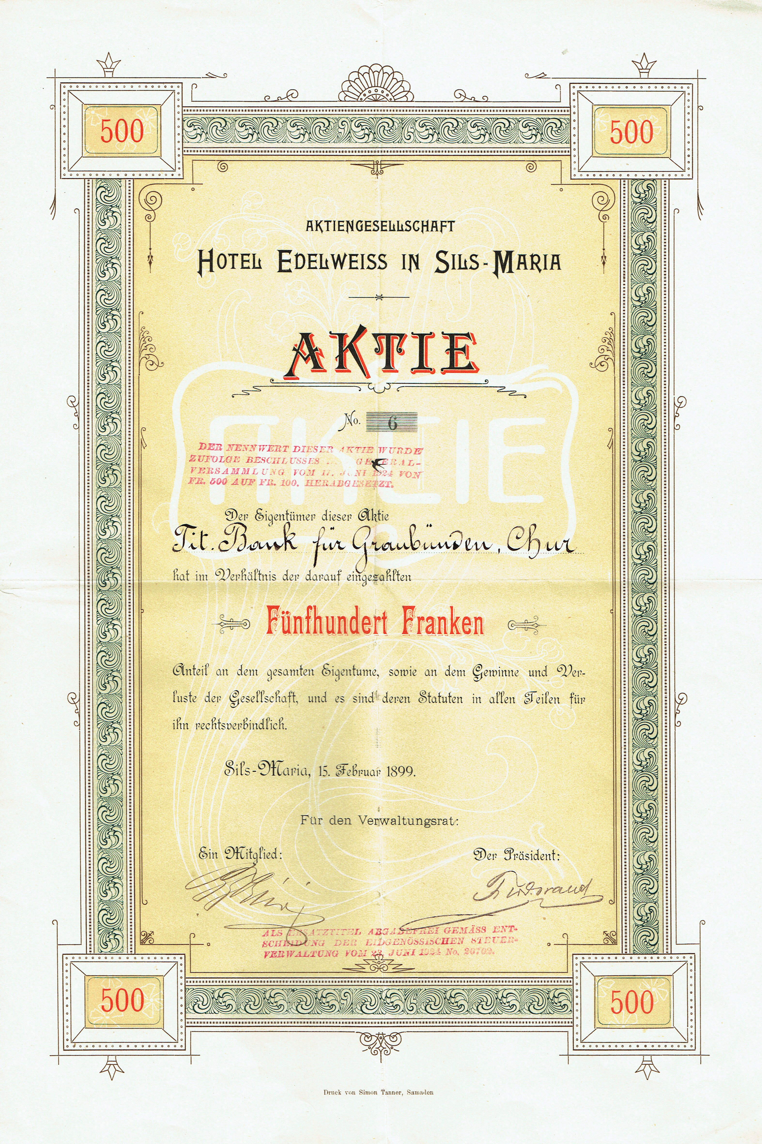 Share of the AG Hotel Edelweiss in Sils-Maria, issued 15. February 1899